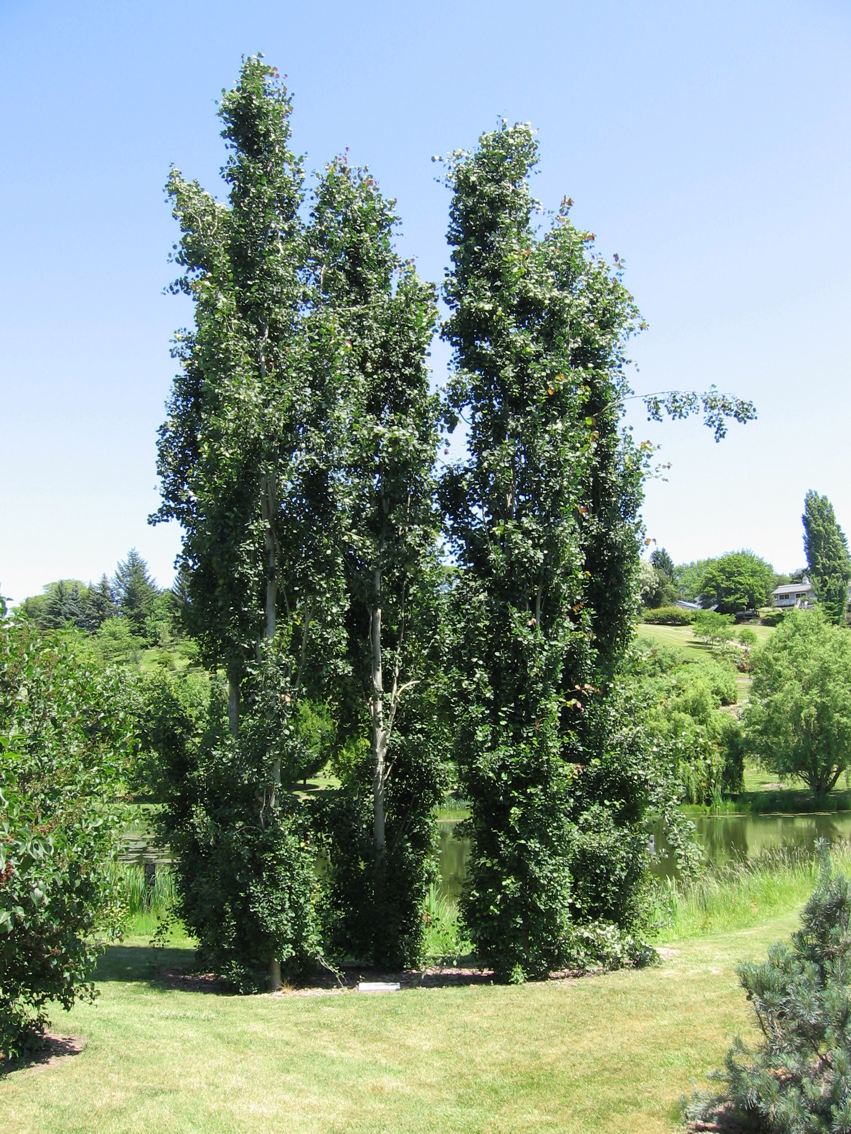 Populus tremula 'Erecta' (fastigiate European Aspen), photographed at the University of Idaho Arboretum and Botanical Garden